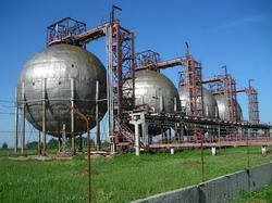 Foto